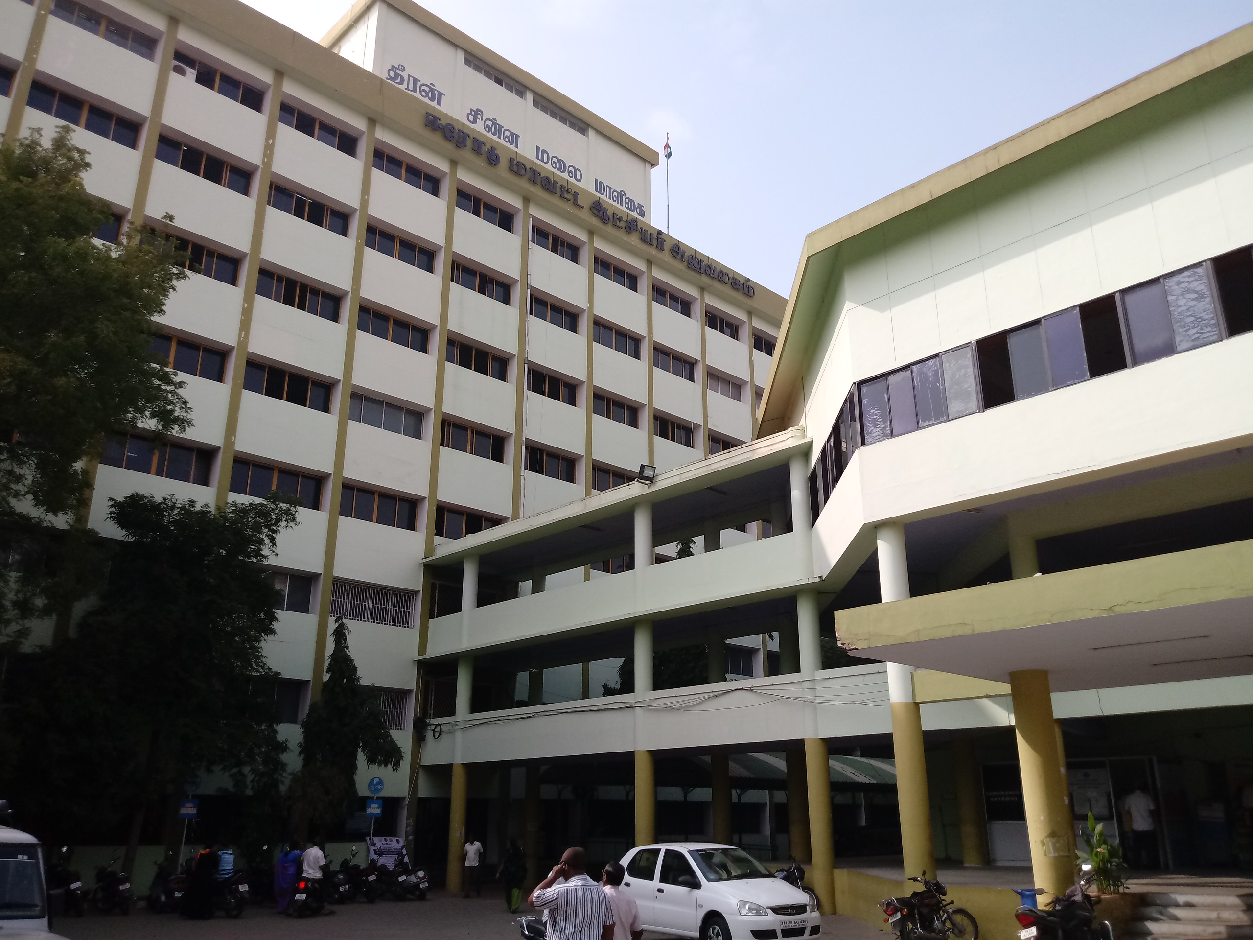 Erode District Collector's Office